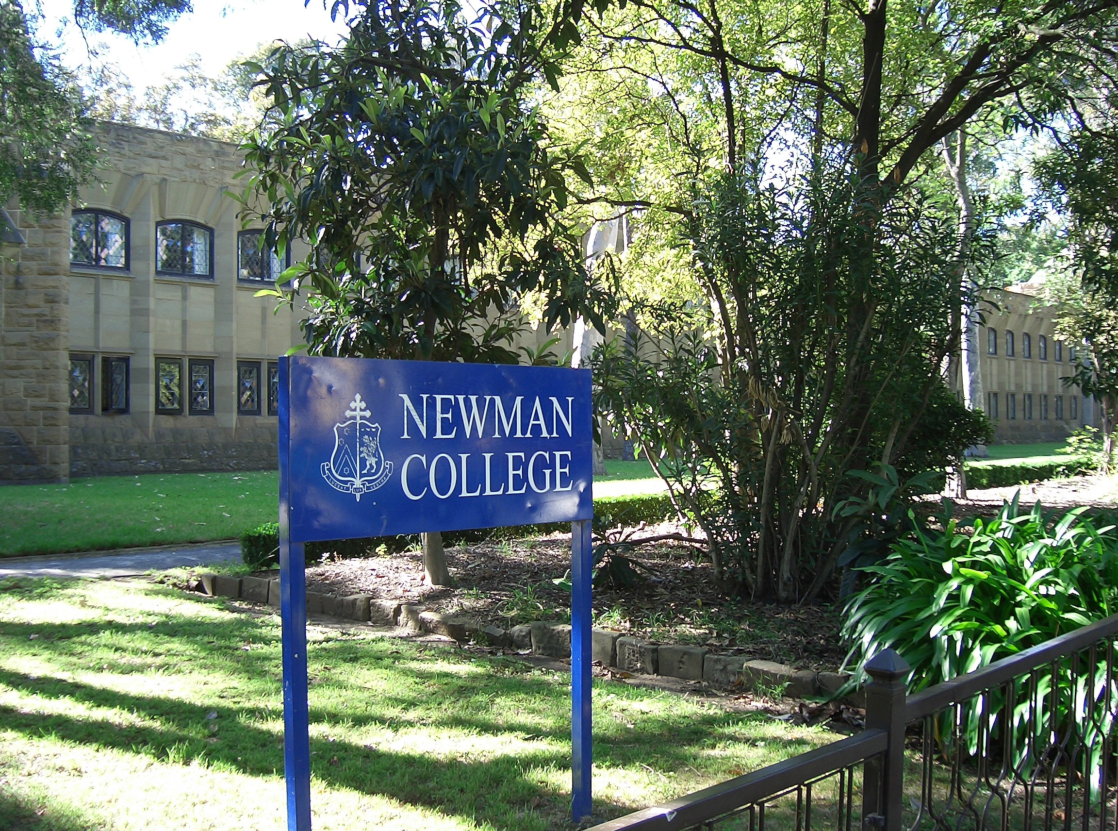 The sign of Newman College, University of Melbourne, with the Mannix wing visible in the background.